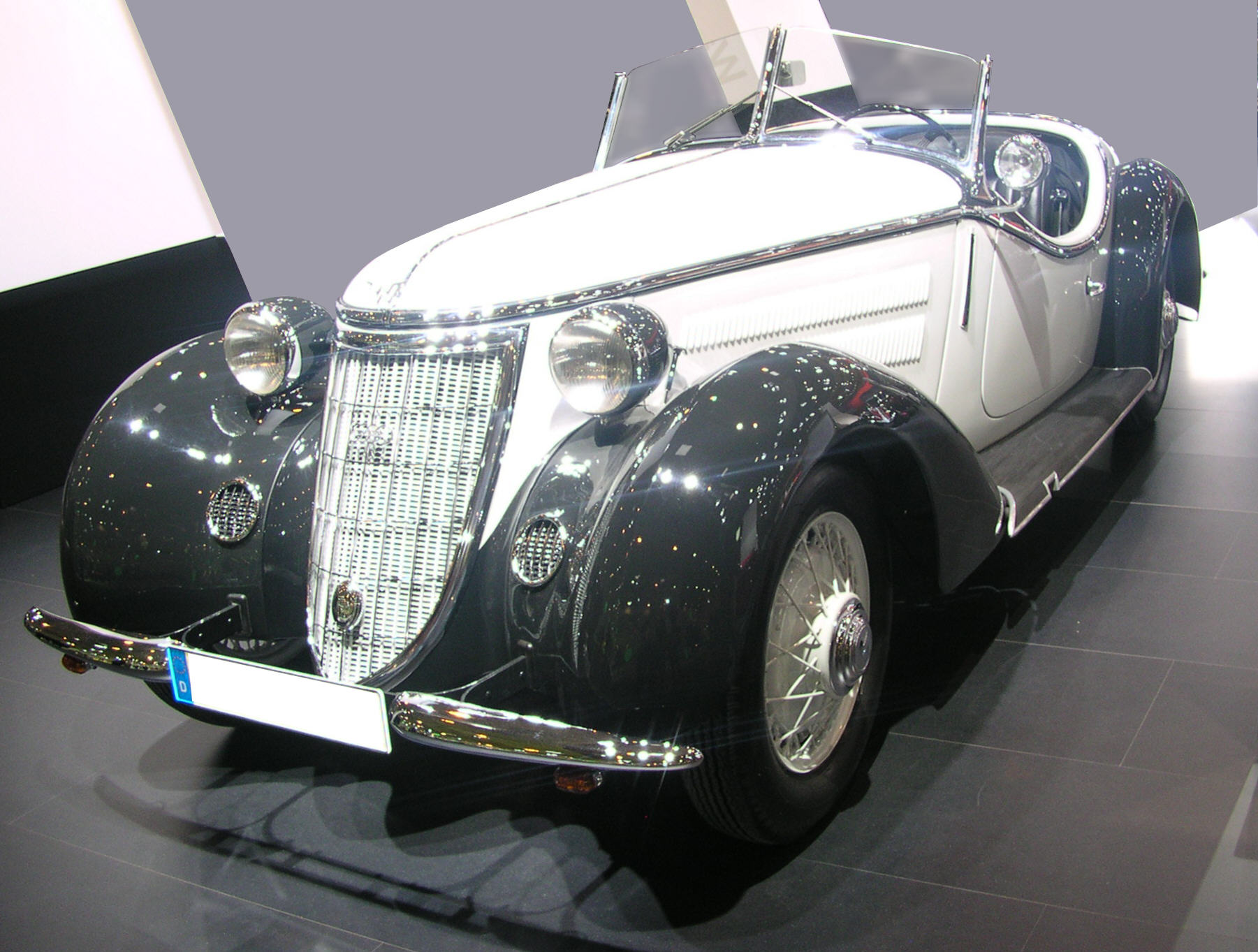 Essen Techno-Classica 2007, Roadster Wanderer W 25 K